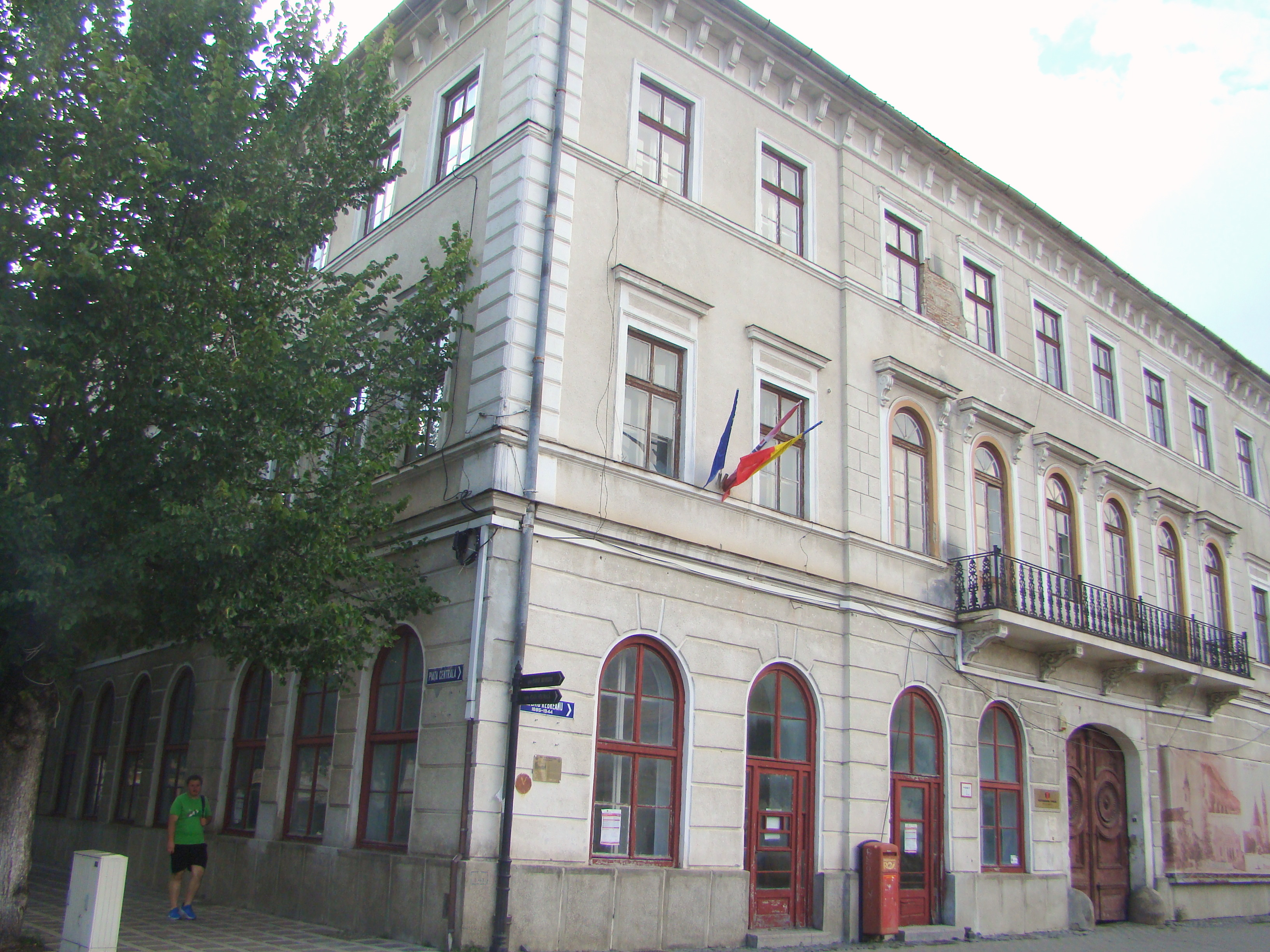 House, historic monument, in Bistrița, Piața Centrală 29